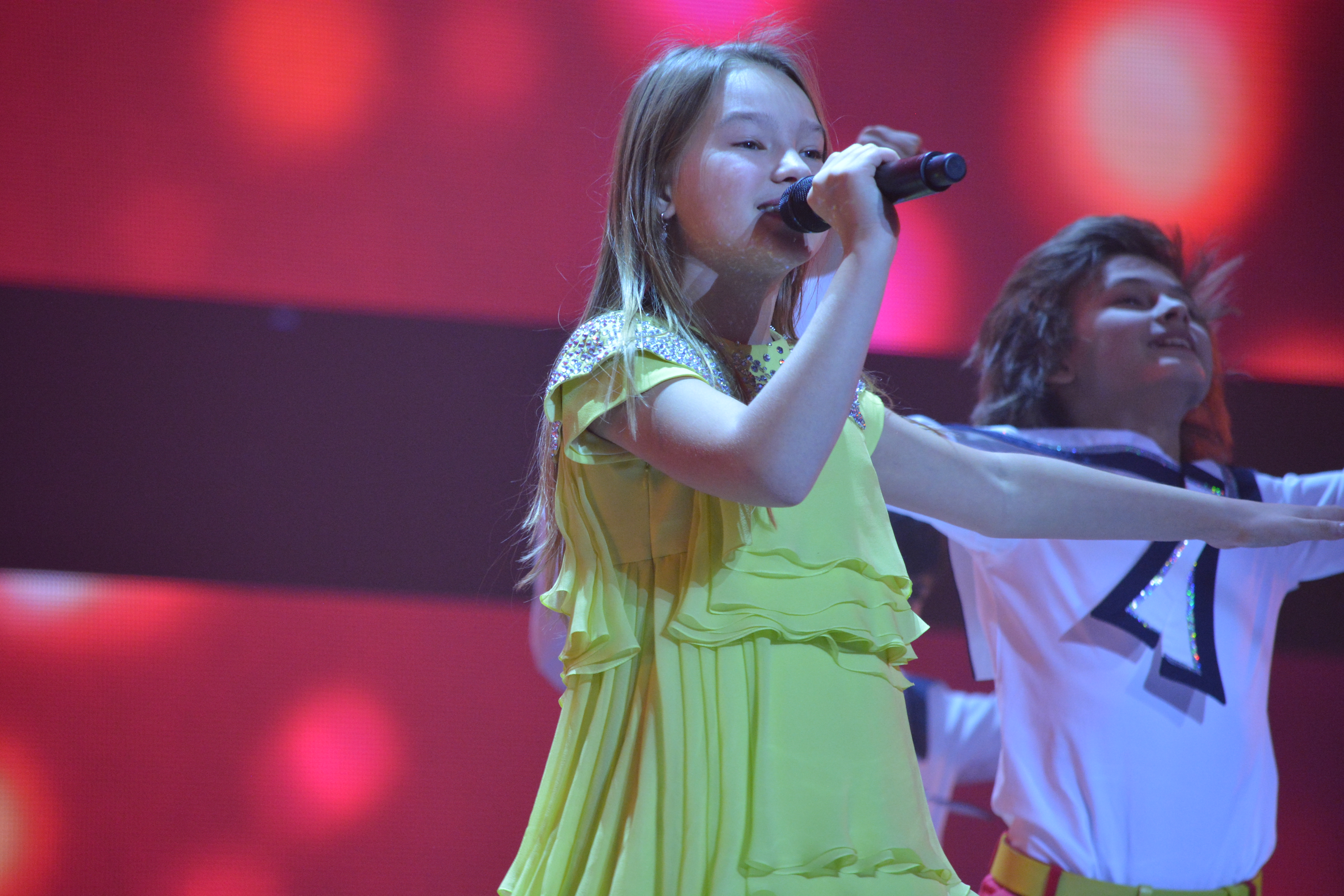 JESC 2013 (Russia) Dayana Kirillova at rehearsal